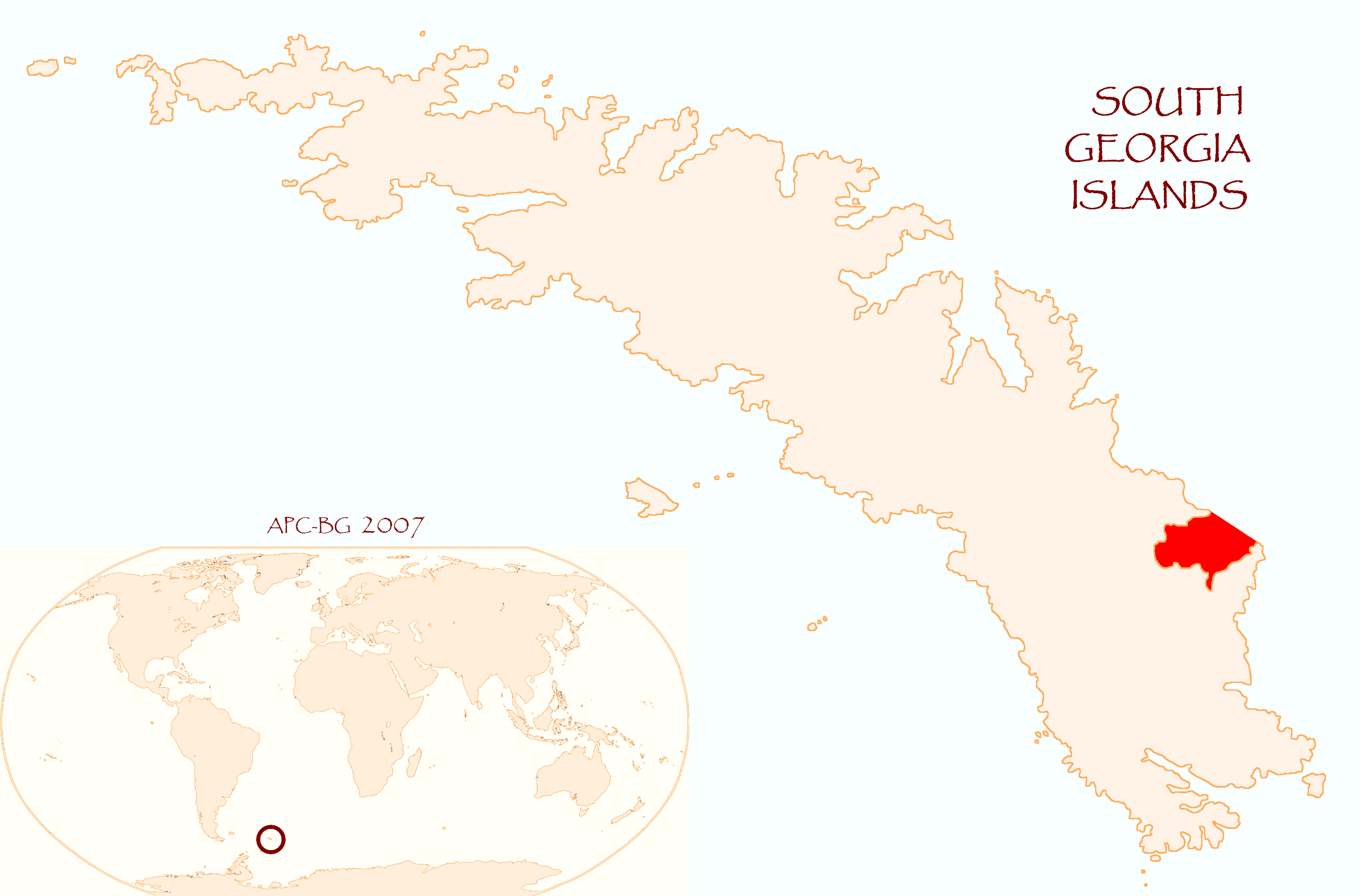 Location map for Royal Bay, South Georgia published by the author Apcbg.